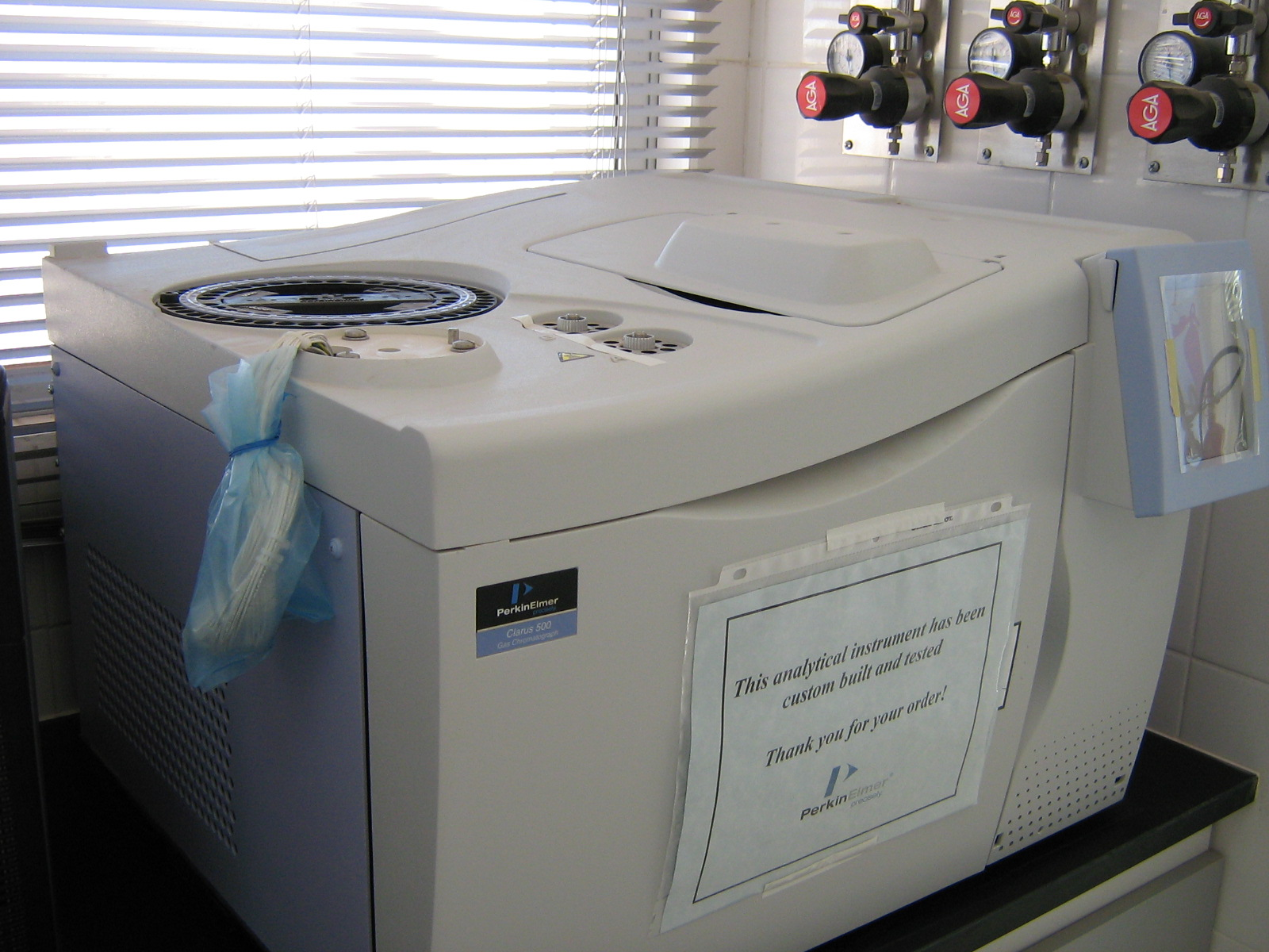 Clarus 500 Gas Chromatograph from PerkinElmer